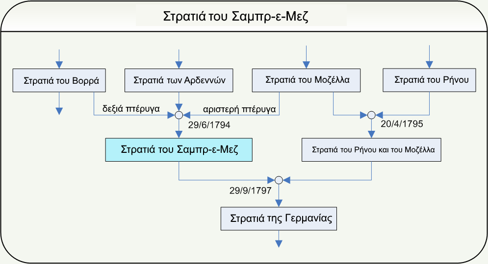 File:Armée_de_Sambre-et-Meuse.png, translated in Greek